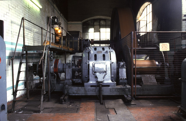 Britannia Colliery fan drive Electric Construction Co motor driving a Walker "indestructible" fan via a flat leather belt. This is tensioned by a tensioning roller on a weighted arm and drives to a large wheel, thus gaining some speed reduction. We were taken in to see the fan, through an airlock but I don't think I've ever photographed one in action - it's a bit breezy in there. See also: File:Walker Indestructible fan, Trencherfield Mill - .uk - 607375.jpg.